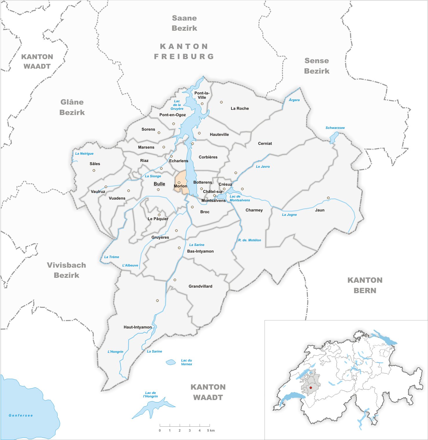 Municipality Morlon